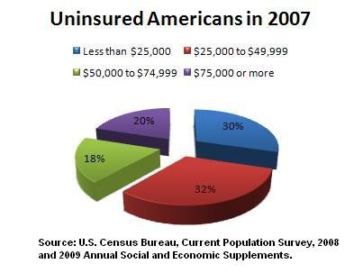 This image shows the income distribution of Americans who did not have health insurance coverage in 2007. The data comes from the U.S. Census Bureau's Current Population Survey 2008 and 2009 Annual Social and Economic Supplements-- available here (page 21).